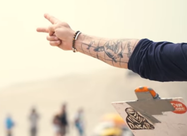 Dakar 2018. The "Go" signal by a man with Dakar tatoo. At Pisco. Perú. Stage 2. Taken from Video "DAKAR 2018 - Etapa 2. Pisco - Pisco" (Barth Racing).